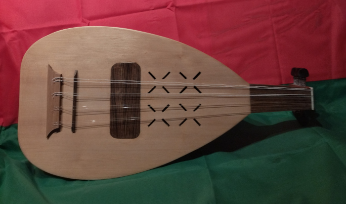 Cobza or Koboz built by Jo Dusepo.